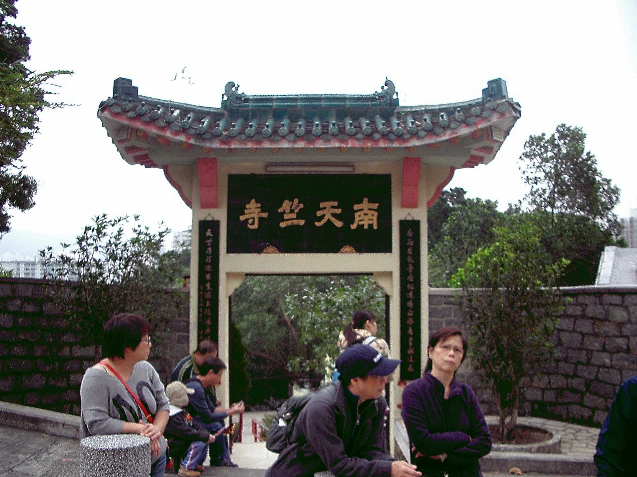 Main Gate, Nam Tin Chuk Temple, Fu Yung Shan, Tsuen Wan, Hong Kong